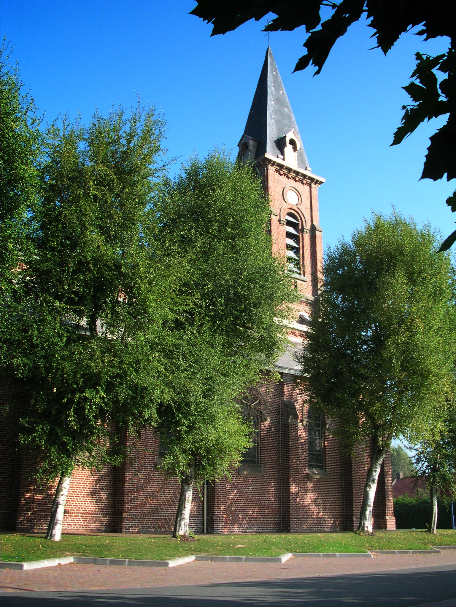 Lompret Church